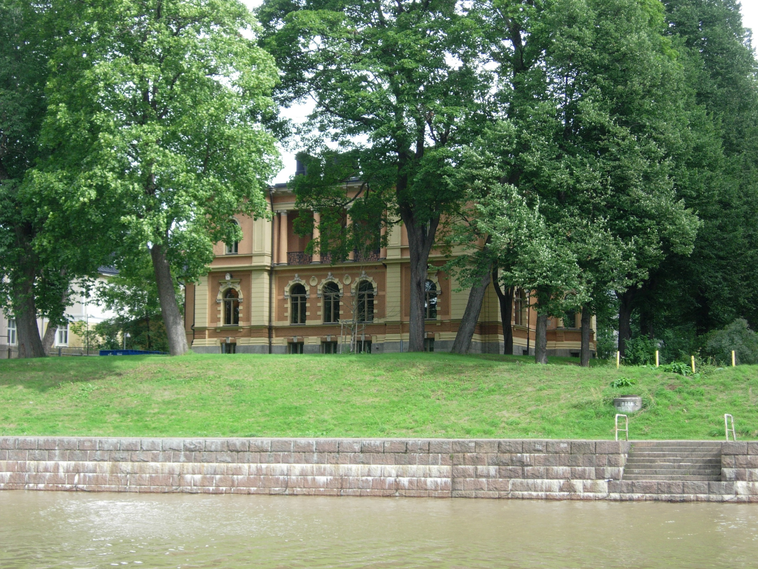 Humanisticum, a building of Åbo Akademi